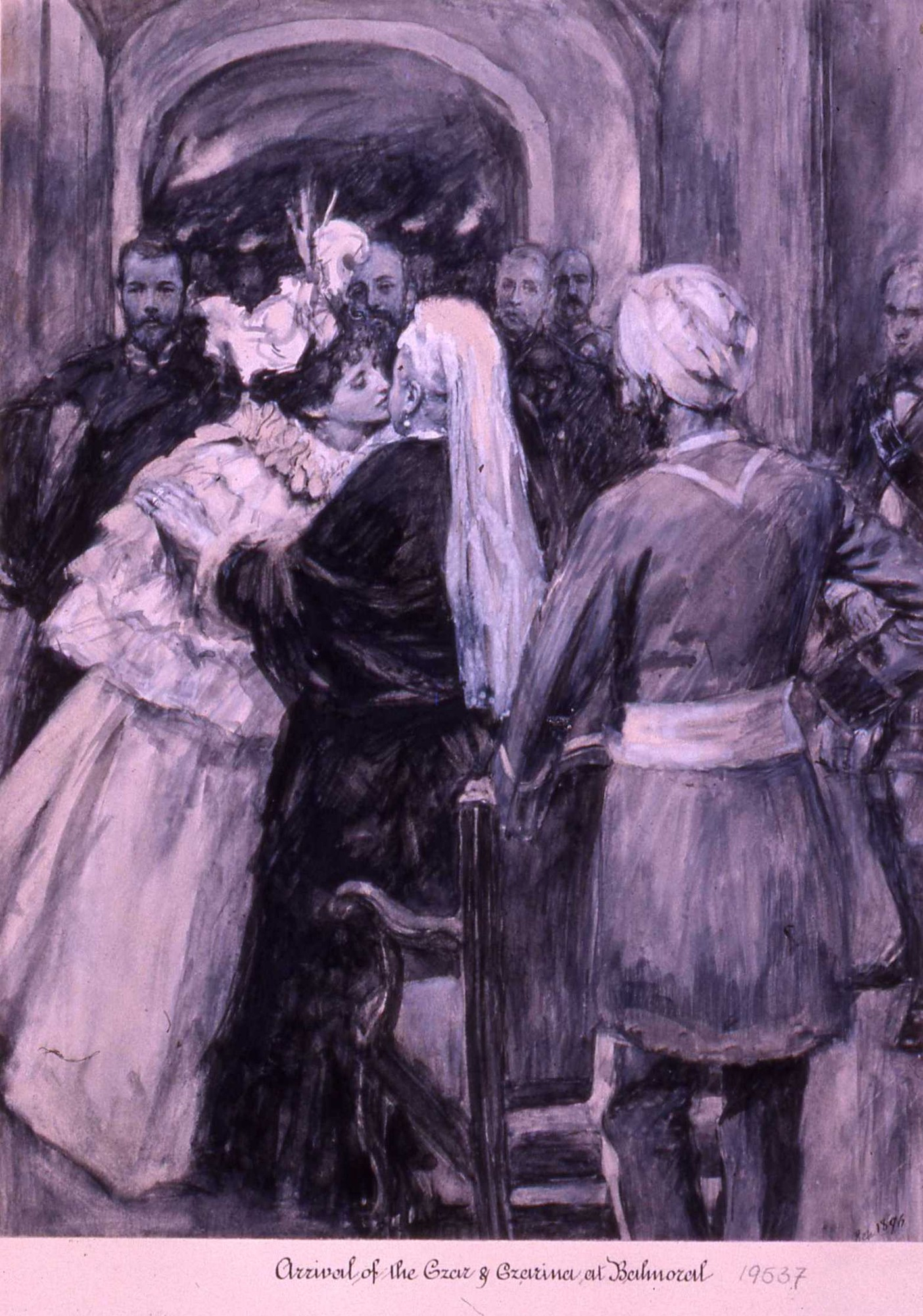 Arrival of the Emperor and Empress of Russia at Balmoral, 22 September 1896 c.1896 30.3 x 22.6 cm | RCIN 919537 Description DM 2245: illustrator's drawing. The Queen kisses the Empress. The Emperor, Prince of Wales & Duke of Connaught are seen behind them. Foreground-right, an Indian servant seen from behind. Dated in a later hand 'Sep 1896'.